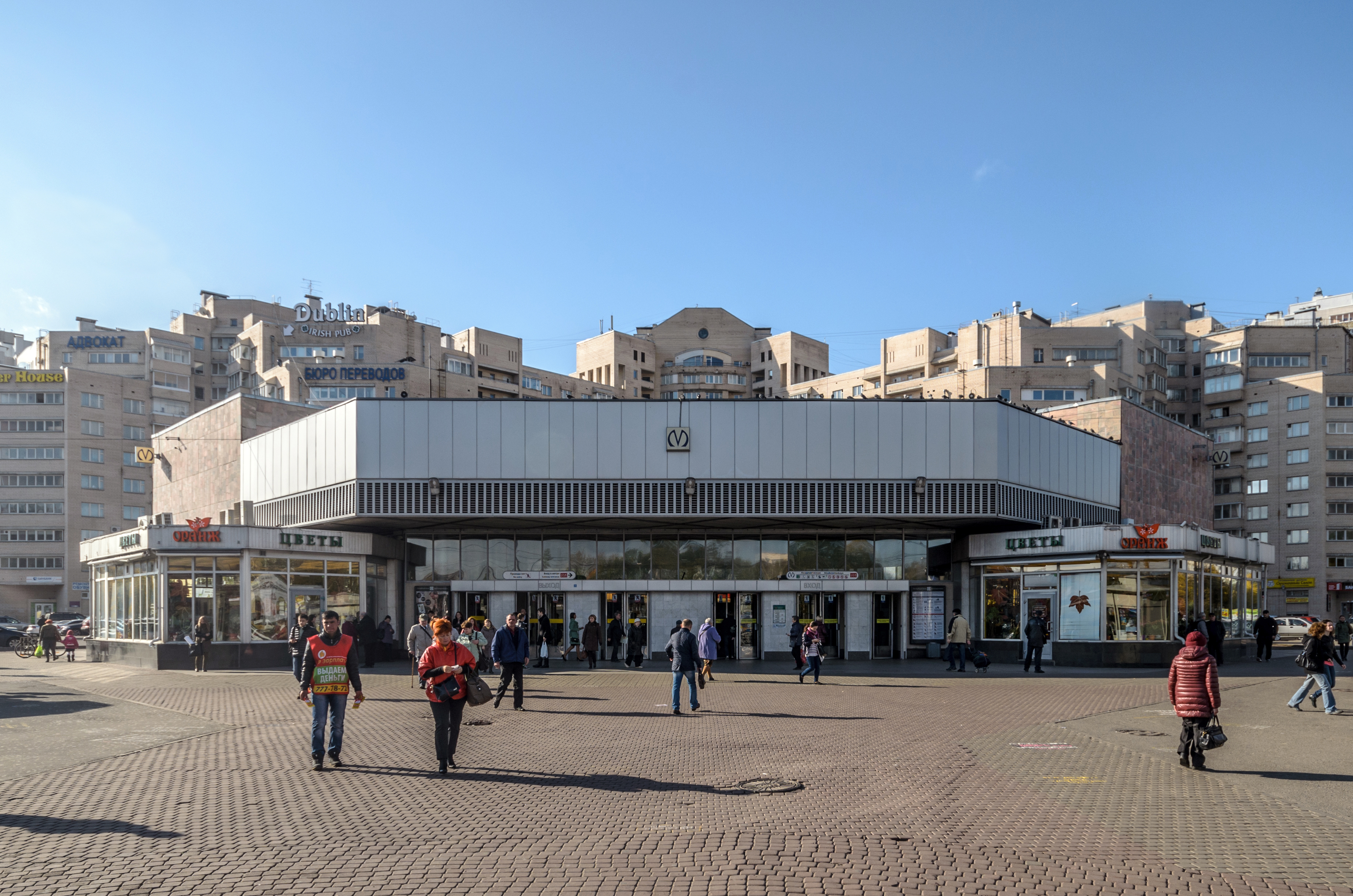 Akademicheskaya station of Saint Petersburg Metro